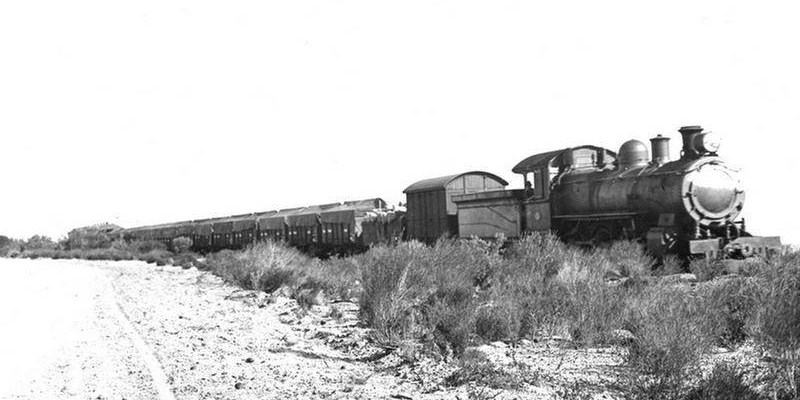 A WAGR E class steam locomotive hauling the first train of bulk wheat in Western Australia.